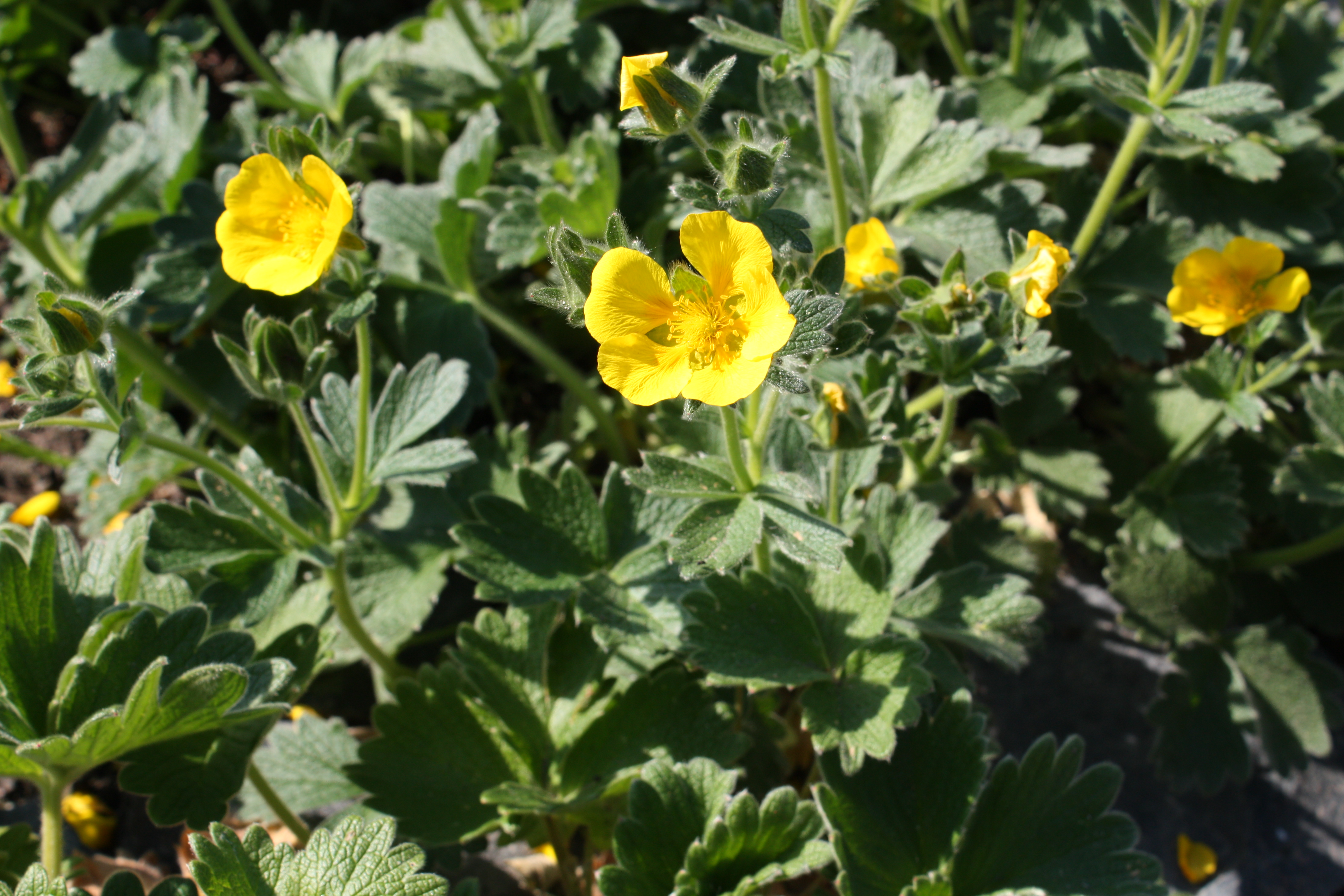 Woolly Cinquefoil (Potentilla megalantha) is flowering in the Outdoor Garden of Gardenia-Helsinki in Finland.